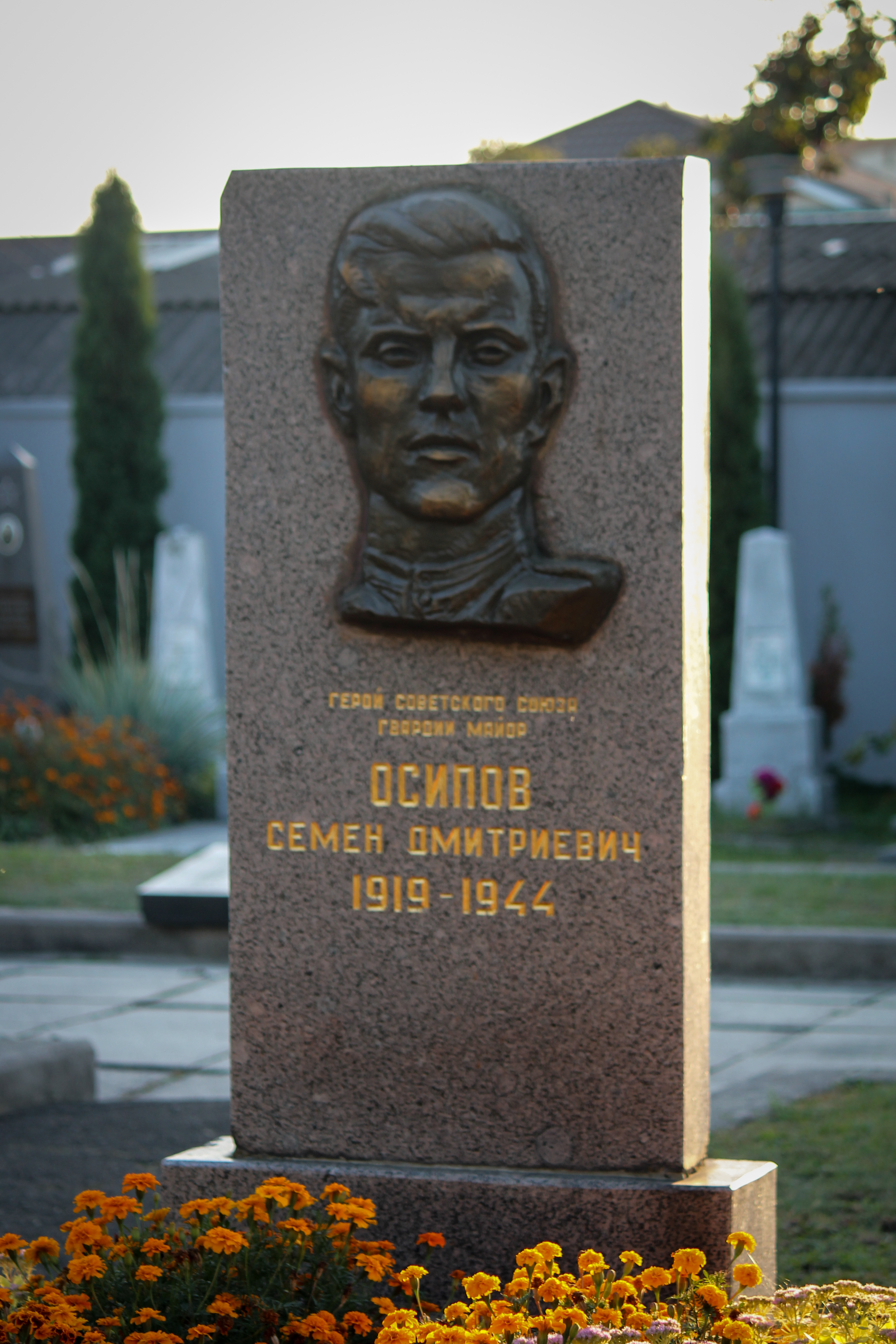 Grave of Hero of the Soviet Union Osipov S.D.